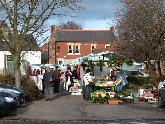 Market Day in Easingwold. Stalls in the market place on a Friday.